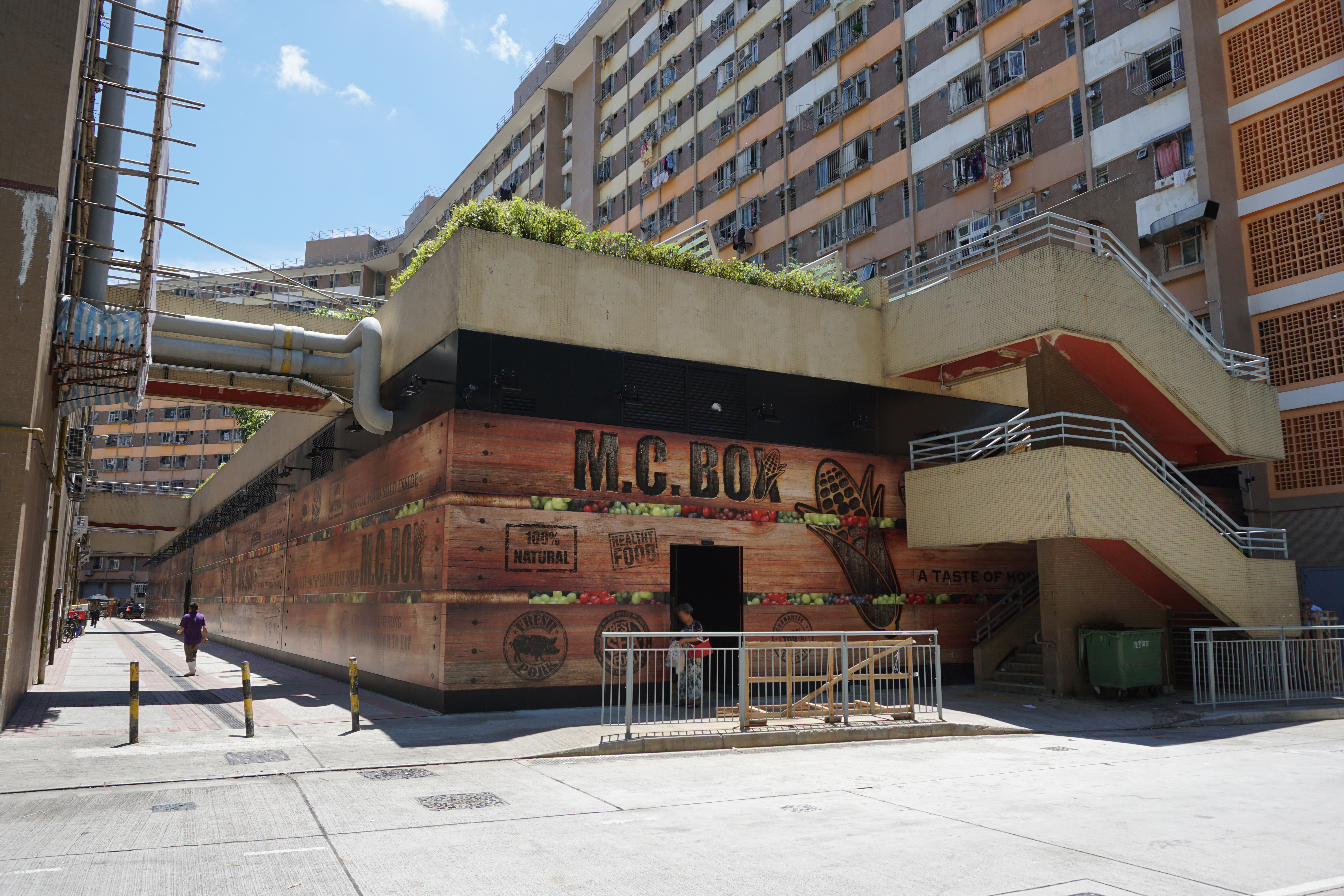 M.C.BOX in Tai Wai, Hong Kong.